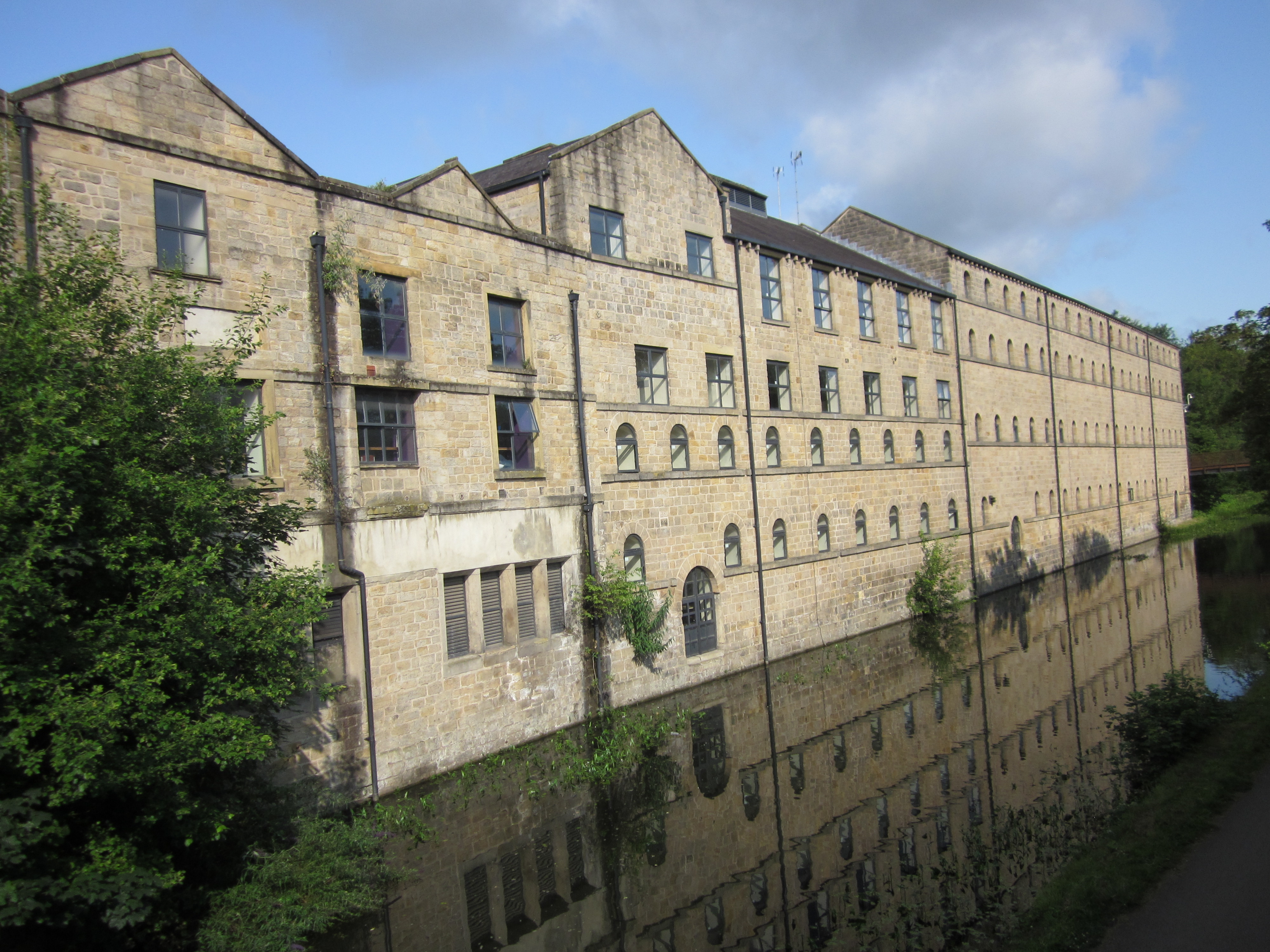 Student residences in former 19th century Kirkstall Brewery buildings canal side, north of Broad Lane, Kirkstall, Leeds. Leeds and Liverpool Canal.